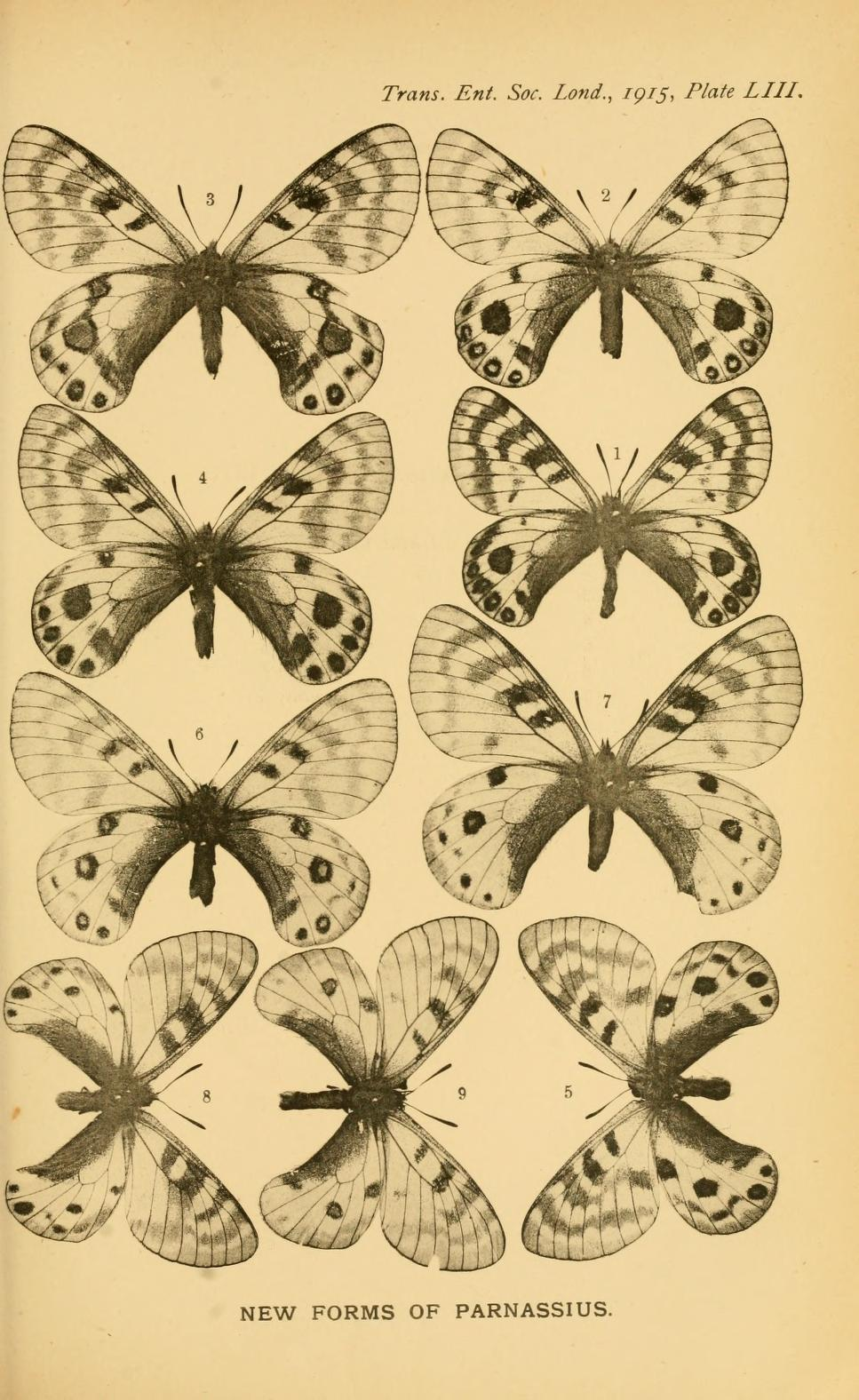 Avinoff, 1916 Some new forms of Parnassius (Lepidoptera, Rhopalocera) Trans. ent. Soc. Lond. 1915 : 351-360, pl. 53 (Plate LIII) text 1 Parnassius delphius nicevillei Avinoff, 1916 male 2 Parnassius delphius nicevillei female 3 Parnassius delphius nicevillei ab cardinalis male 4 Parnassius delphius atkinsoni male (Moore, 1902) 5 Parnassius delphius mamaievi Bang-Haas, 1915 male 6 Parnassius delphius mamaievi female 7 Parnassius delphius workmani female 8 Parnassius delphius kafir Avinoff, 1916 male 9 Parnassius delphius kafir female